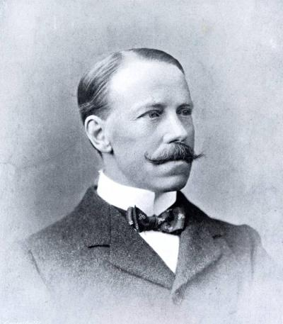 Photo of Anthony George Lyster, dock engineer